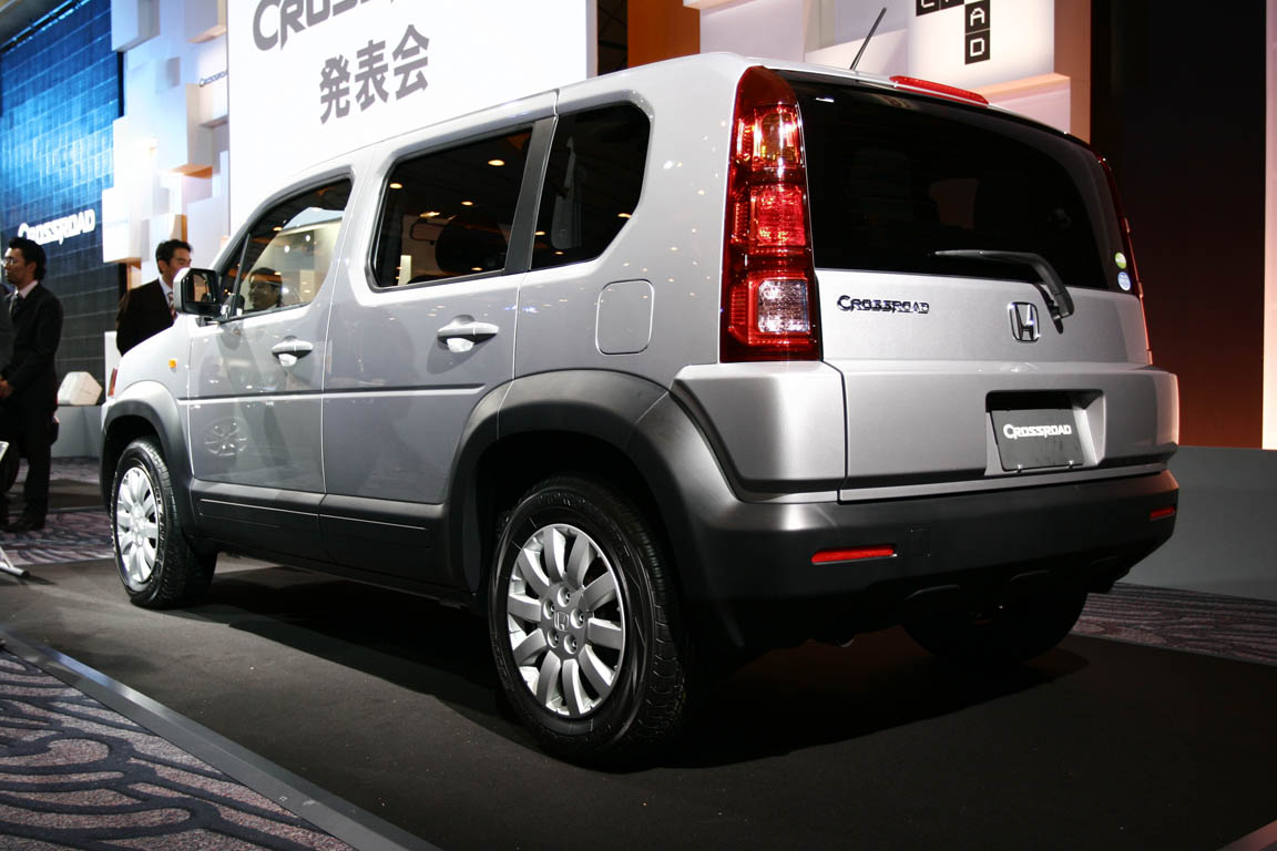 HONDA CROSSROAD photographed in Cerulean Tower.